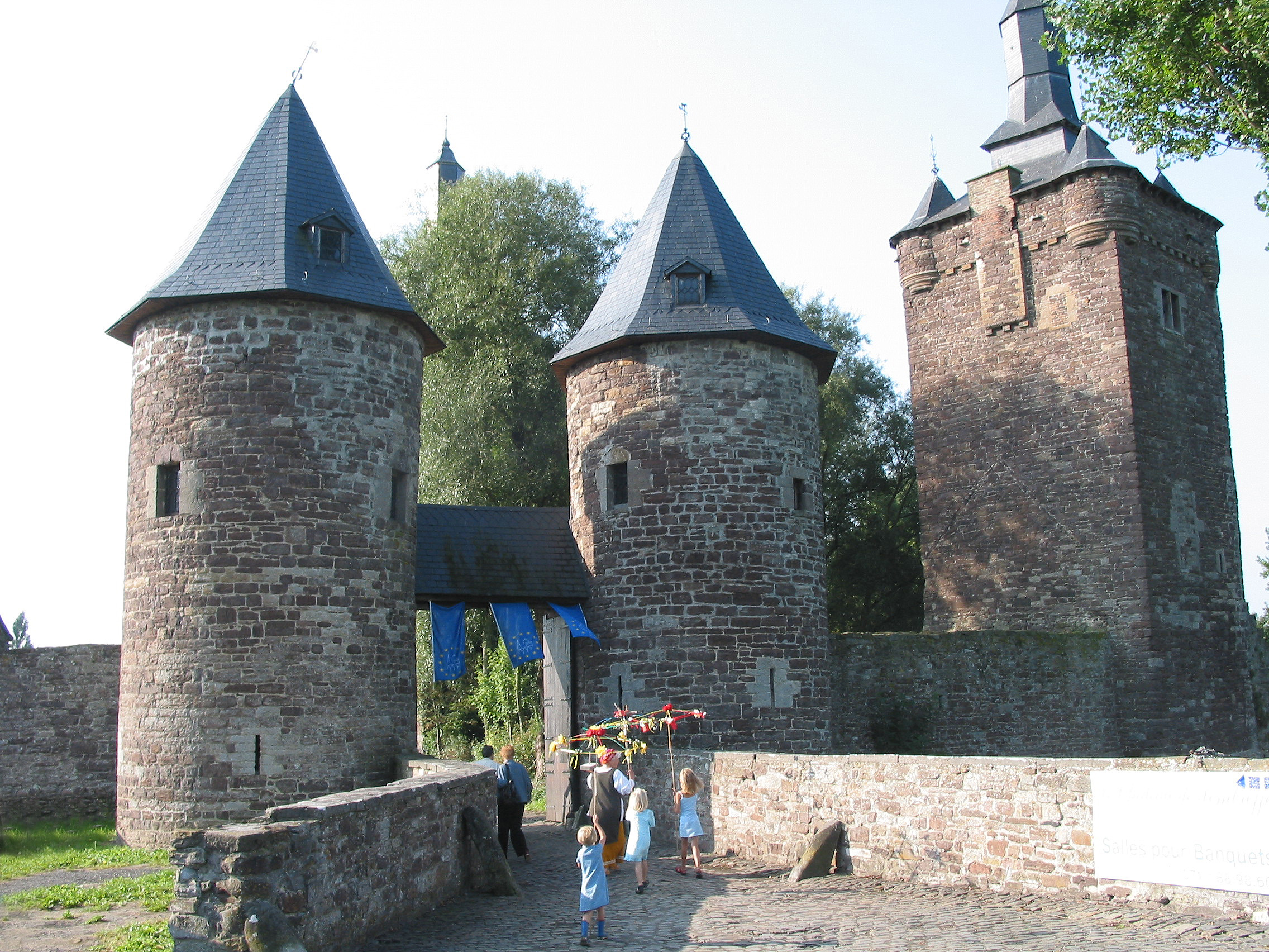 Sombreffe (Belgium), the entrance to the castle with its twins towers, the northern keep and the central keep (XIII-XVth centuries).